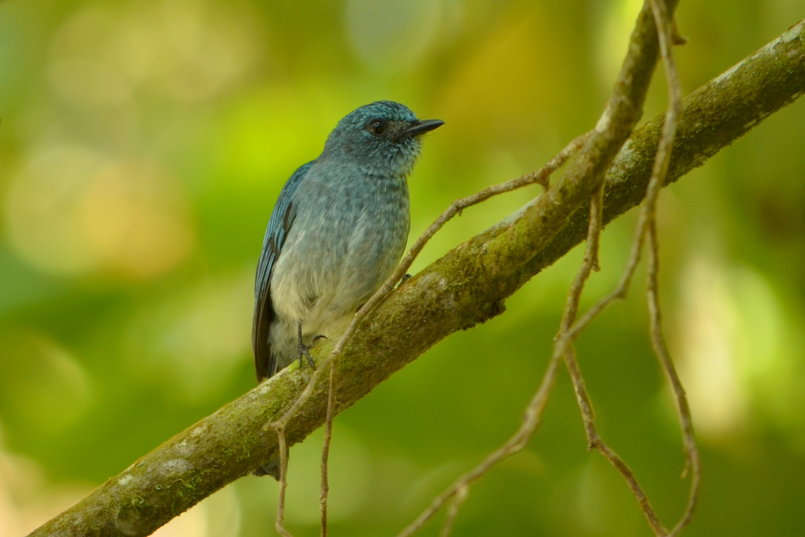 Female of Island Flycatcher. Mount Mahawu, North Sulawesi